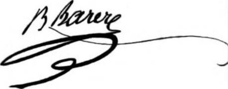 Signature of Bertrand Barère de Vieuzac (1755-1841), French Revolutionist.